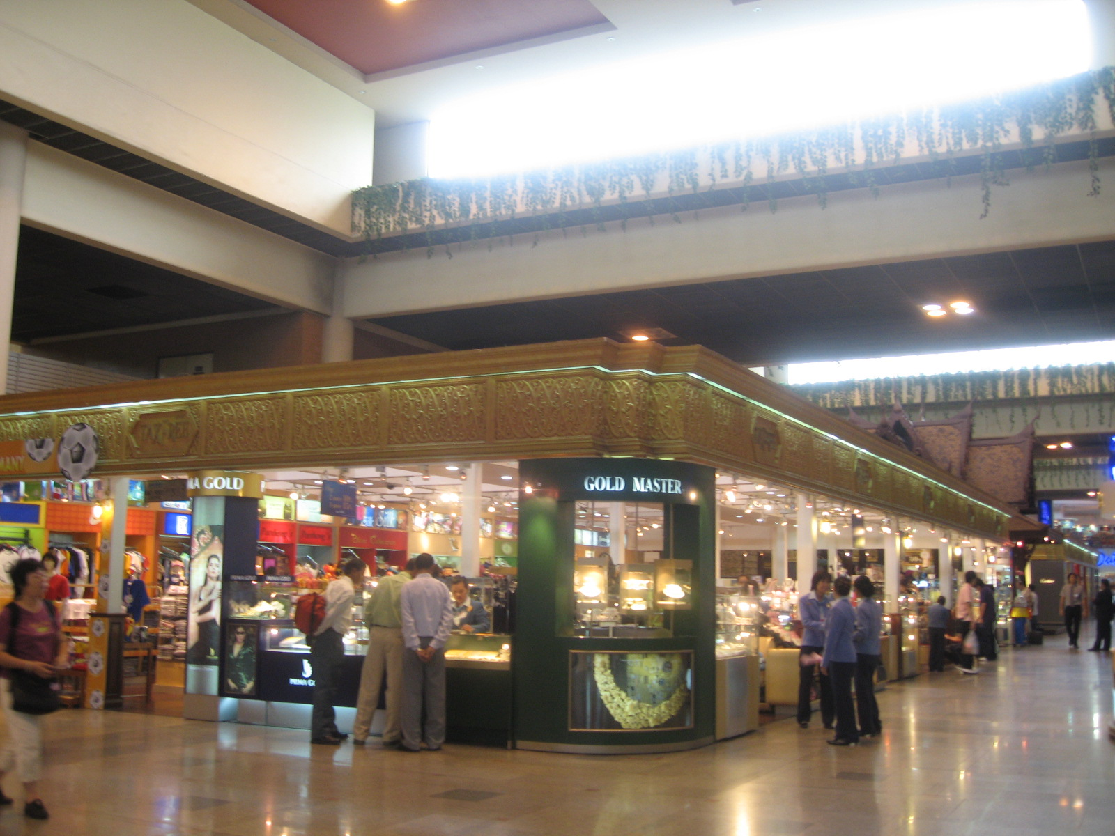 Bangkok (Don Mueang) International Airport, Terminal 1 Restricted Area. Taken by Terence Ong in June 2006.